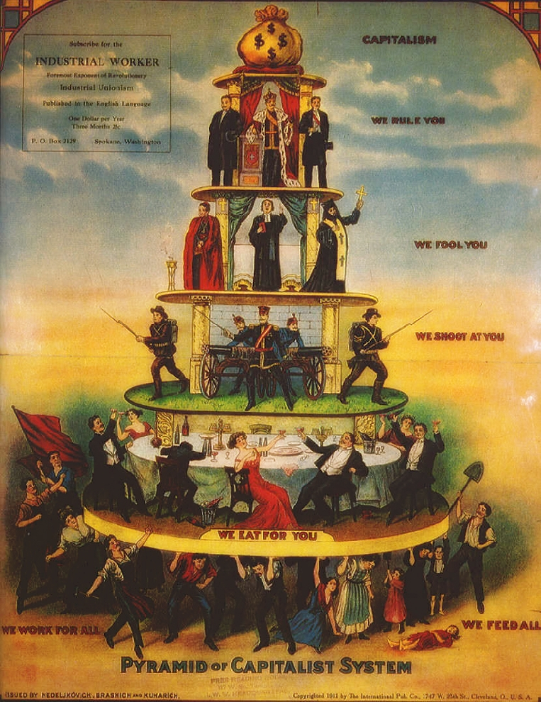 IWW poster printed 1911